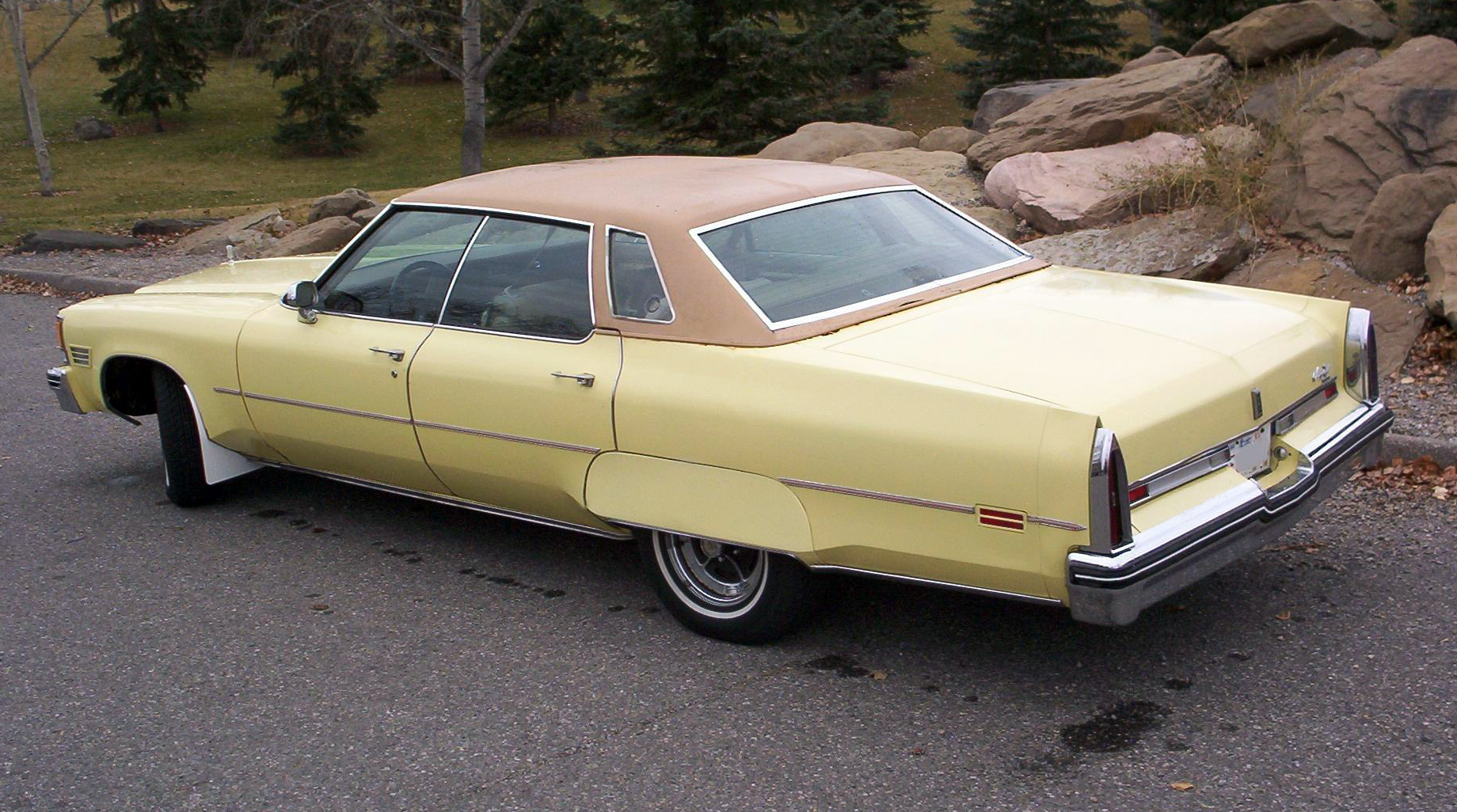 1976 Oldsmobile 98 Source Author: Peter Eric Bruner Source: The A-Body Site URL: Photo Date: October 26, 2006 Photo Location: 50.906818, -114.075626 - "THE BARN" - Shawnessy District, Calgary, Alberta, Canada Photo Taken With: Kodak CX4300 Digital Camera